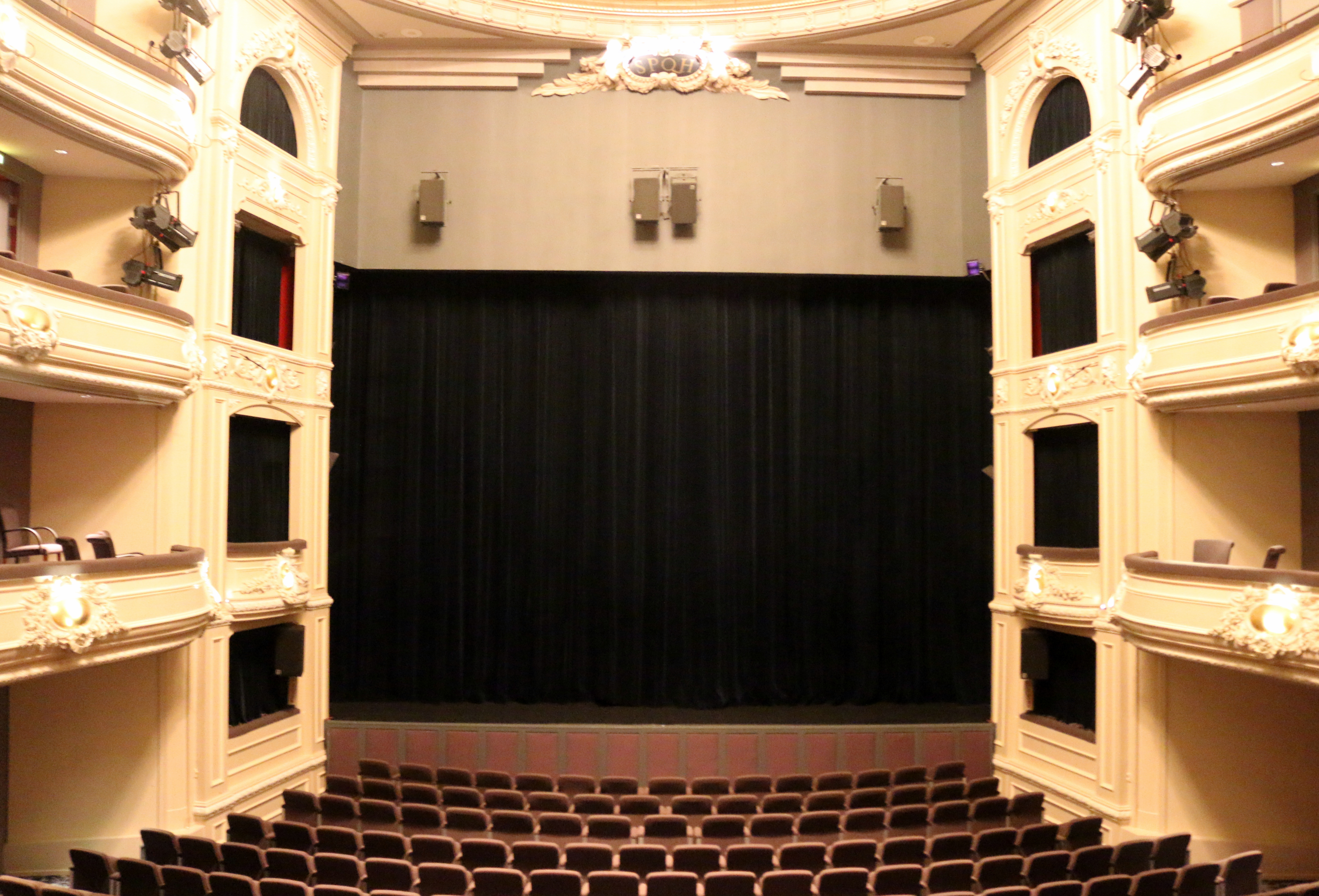 The Hague Royal Theater / Koninklijke Schouwburg Den Haag (2014) - Photo: Persian Dutch Network